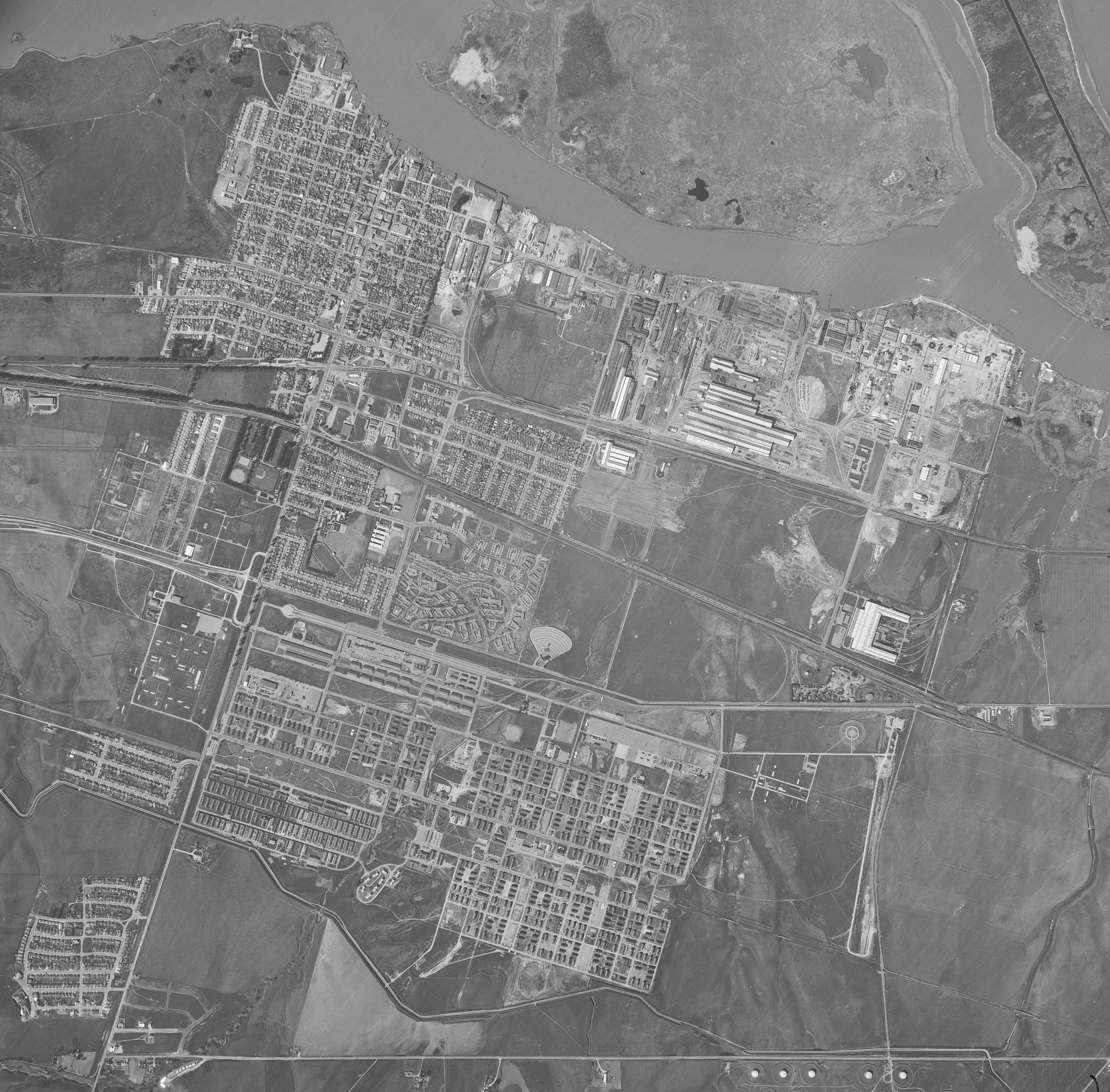 Pittsburg, Calif. aerial view March 3, 1951, including Camp Stoneman.